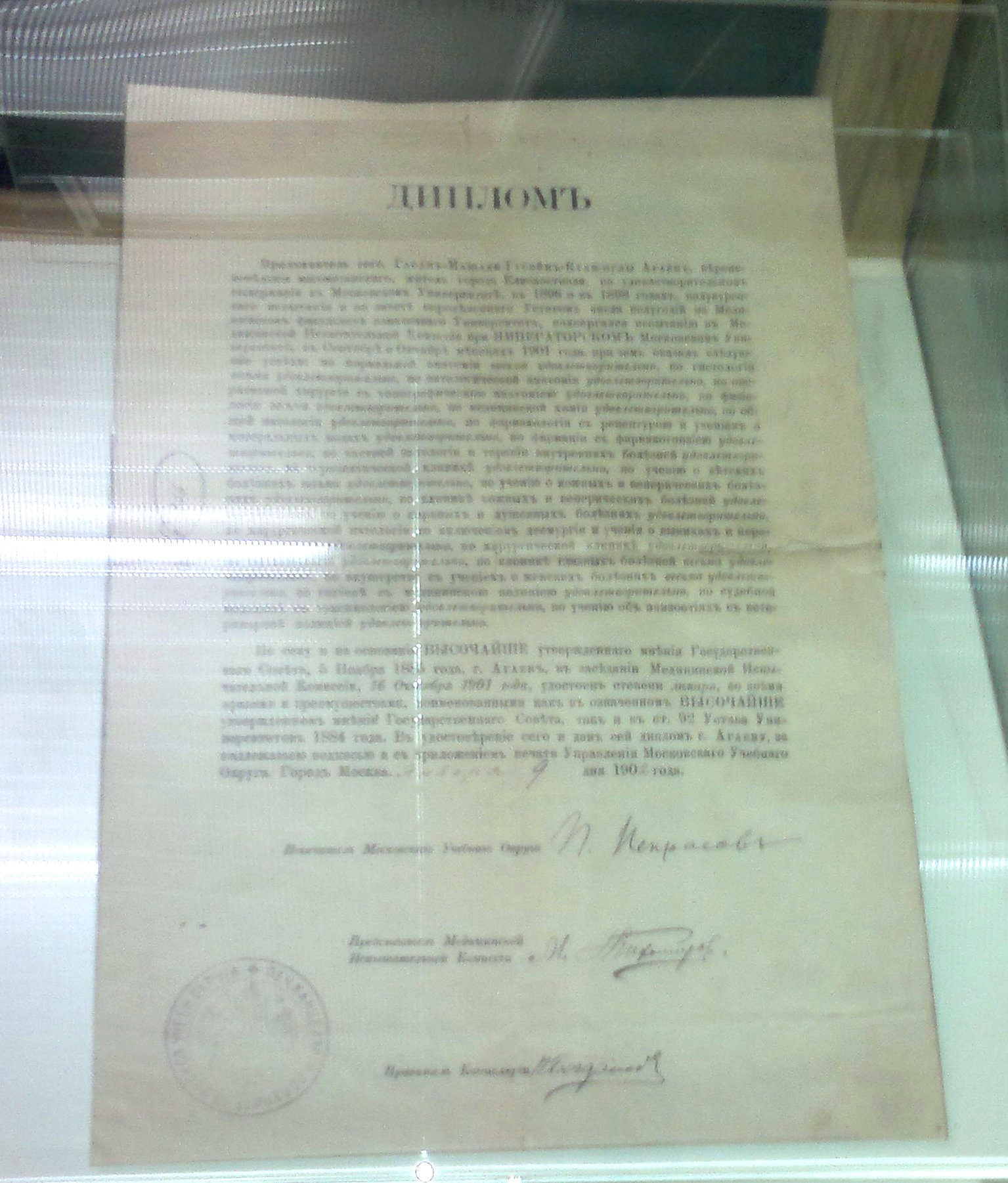 Graduate of Moscow University, Hasan bey Agayev's Diploma. Museum of History of Azerbaijan, Baku.